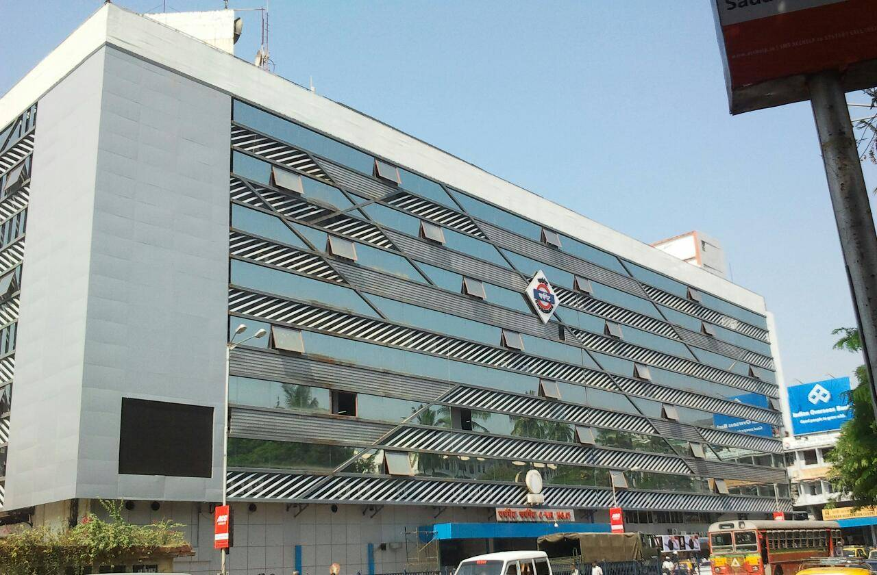 Churchagate Station Mumbai.